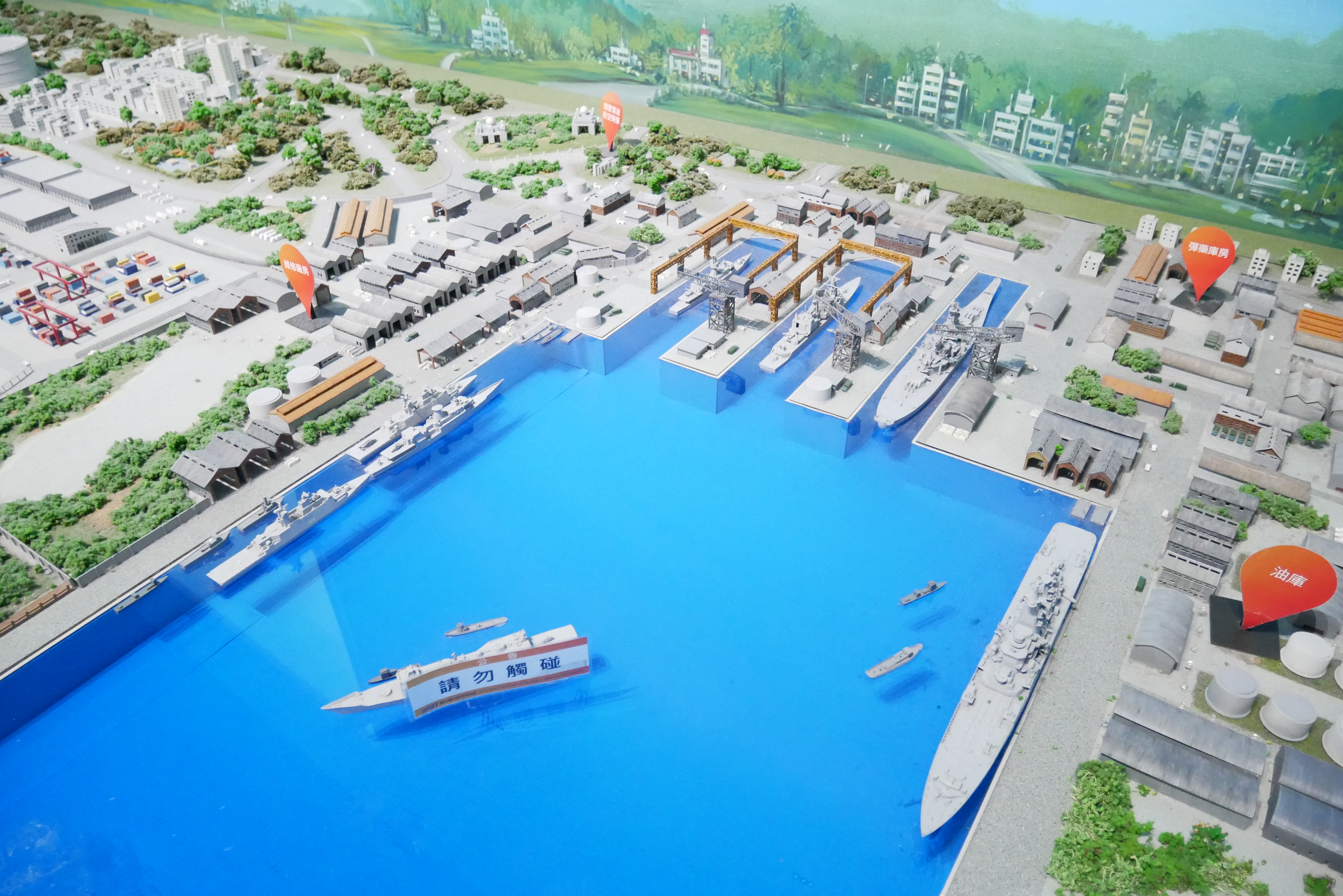 國立海洋科技博物館內軍港模型，基隆市中正區長潭里